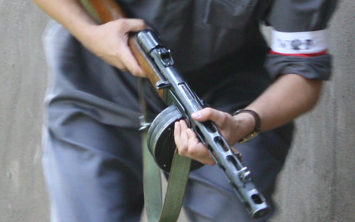 Warsaw Uprising reenactments - Mokotów'44